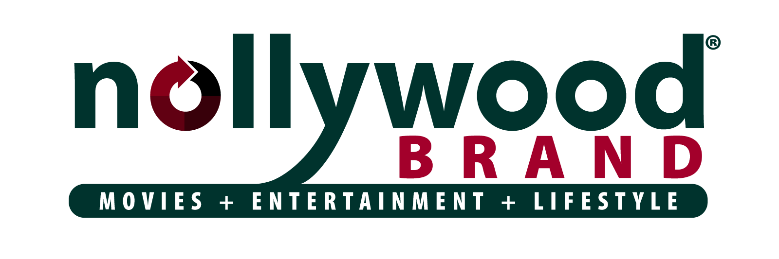 Logo of Nollywood Brand